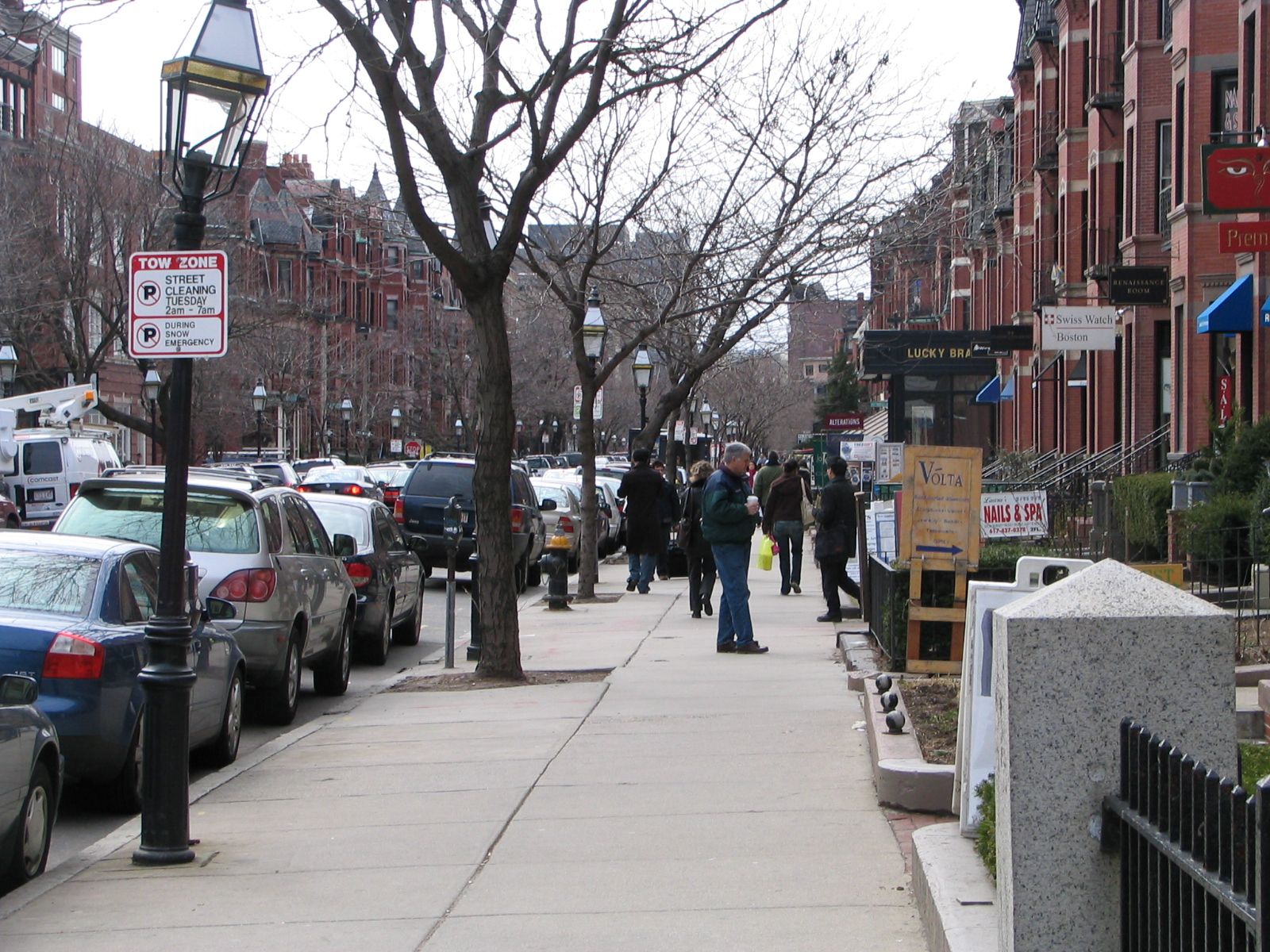 Newbury Street, Boston